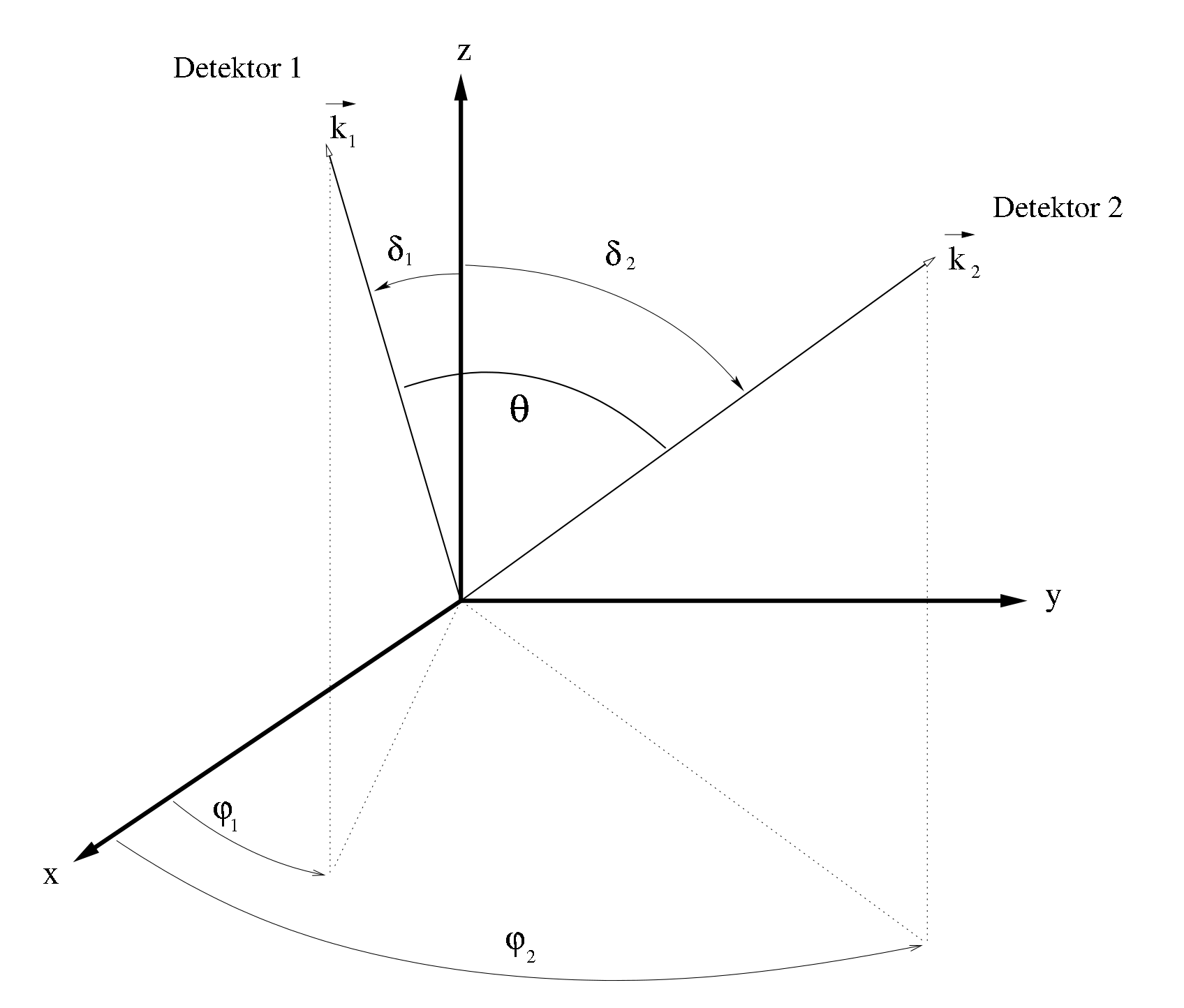 PAC-Spectroscopy: Detector angles and their relations.